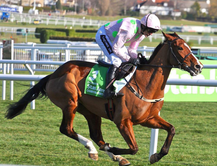 Faugheen first furlong in the 2015 Champion Hurdle at Cheltenham